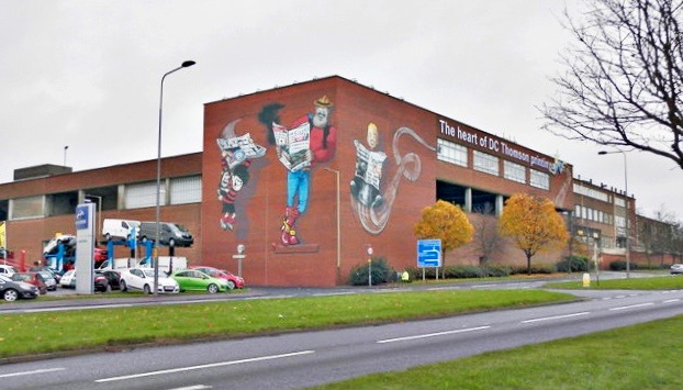 DC Thomson main offices and printing works at East Kingsway, Dundee